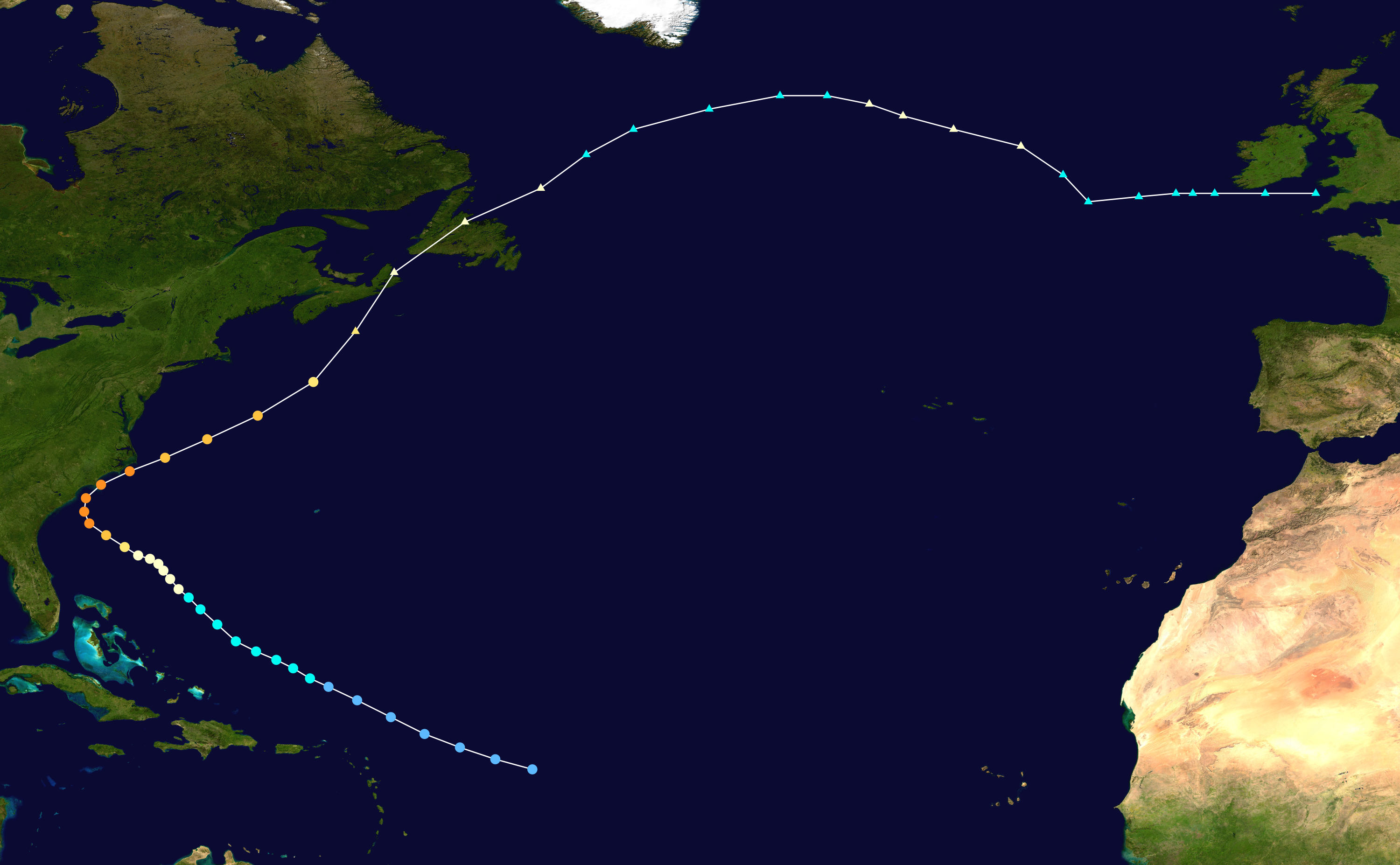 Hurricane Helene (1958) track. Uses the color scheme from the Saffir-Simpson Hurricane Scale.